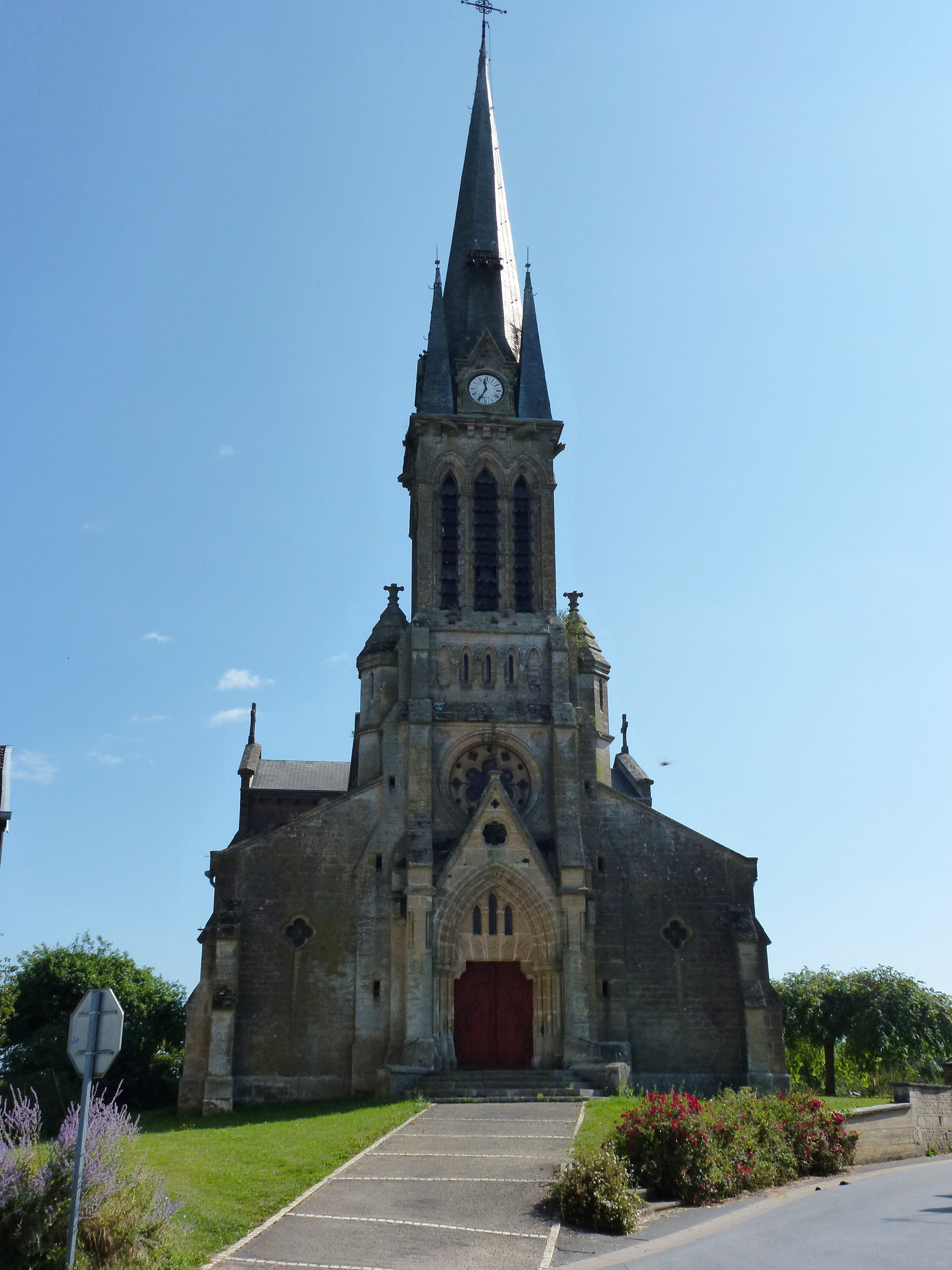 Jonval (Ardennes) église, façade